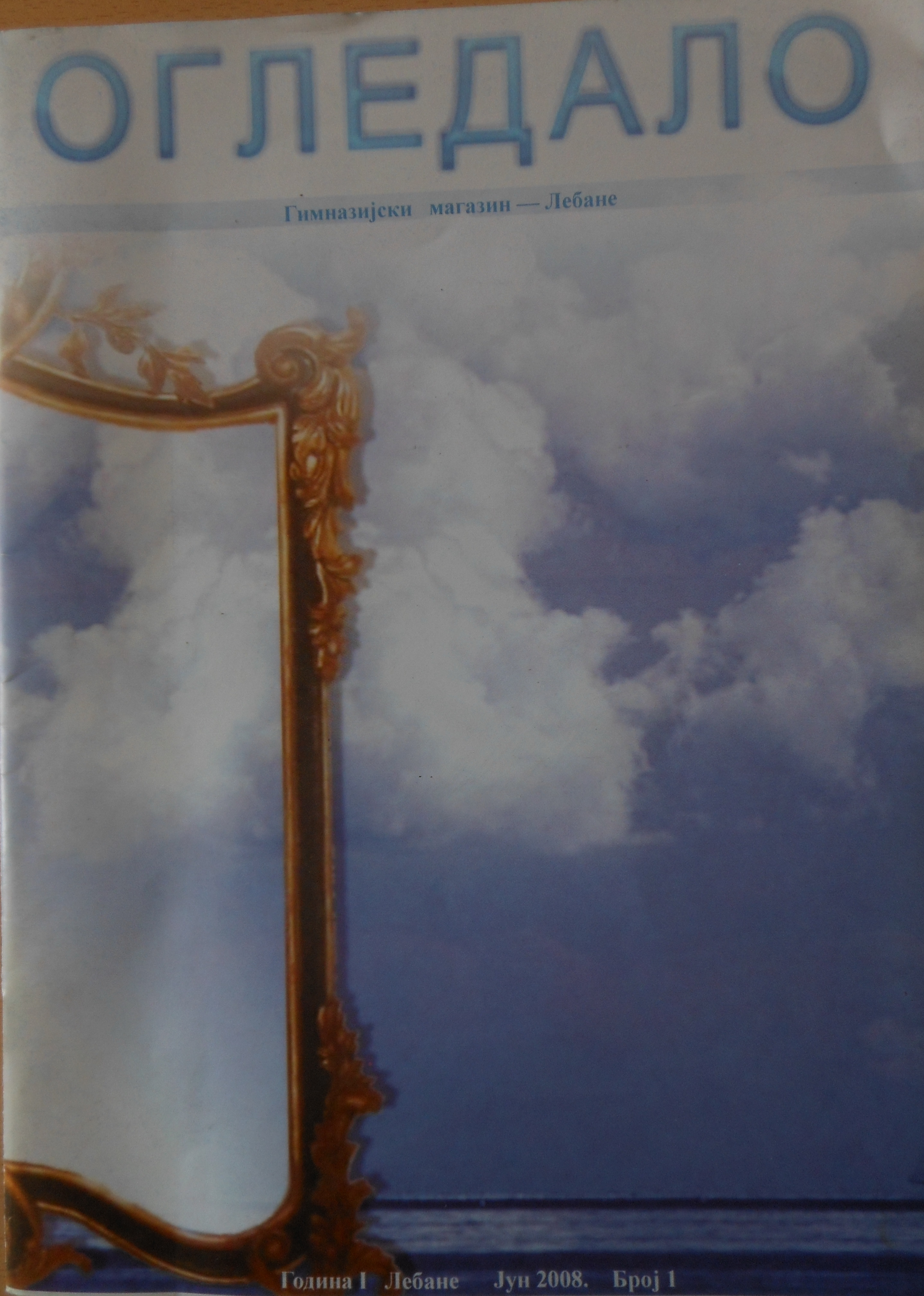 Cover journal Ogledalo, Lebane, Serbia